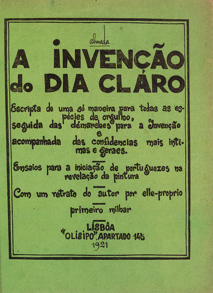 Almada Negreiros, A invenção do dia Claro, 1921 (book cover)